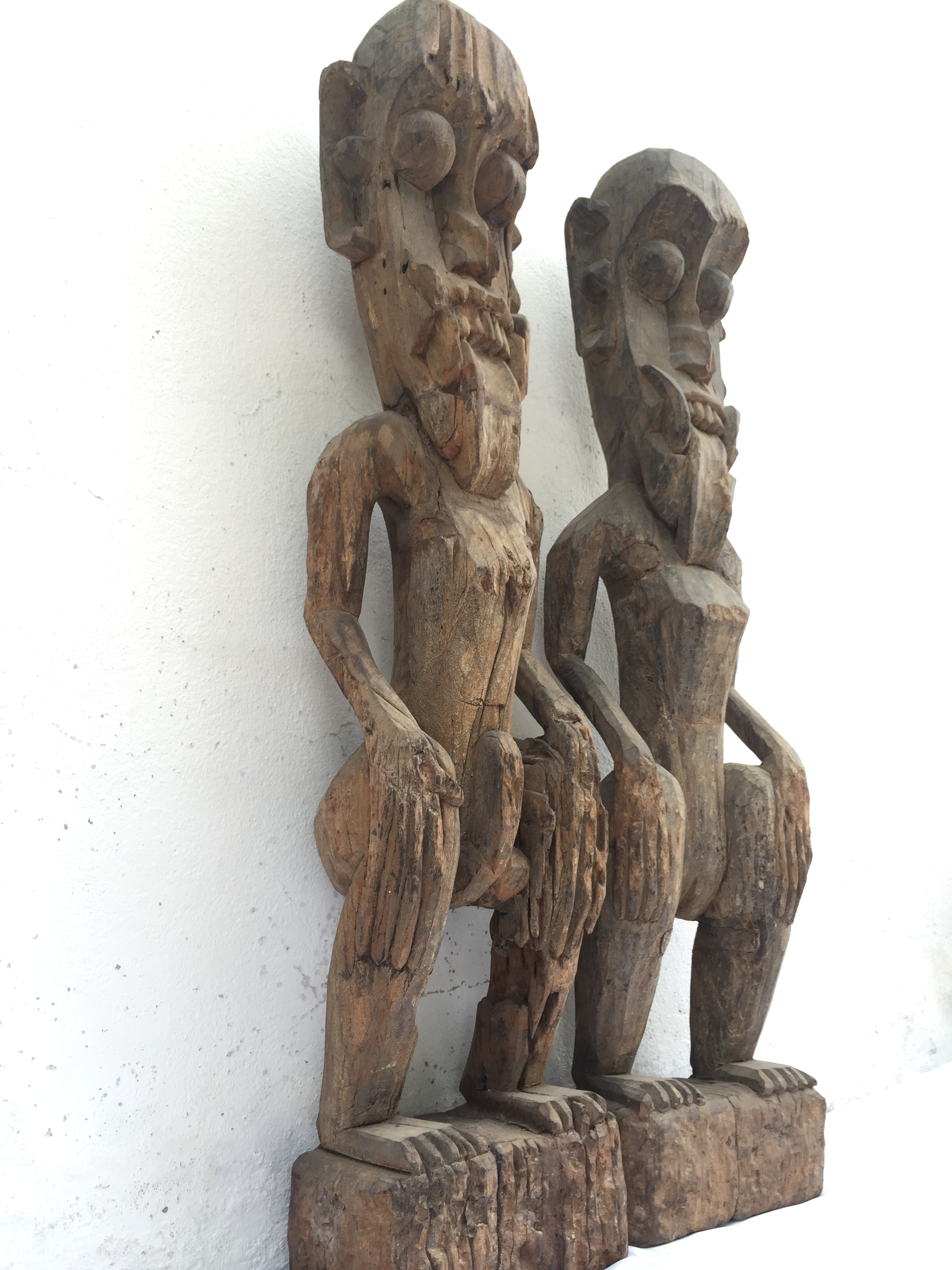 Kebahan is from the subgroup of dayak of Borneo. these rare statue made by this ethnic group is special and resemblance of the ethnic warrior and guardian